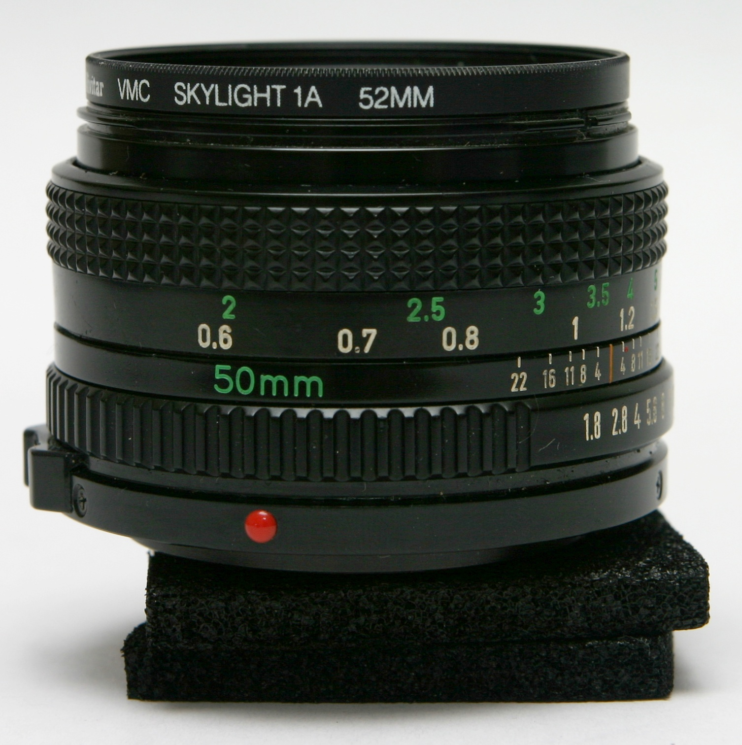 Canon FD 50mm f/1.8 lens from the side